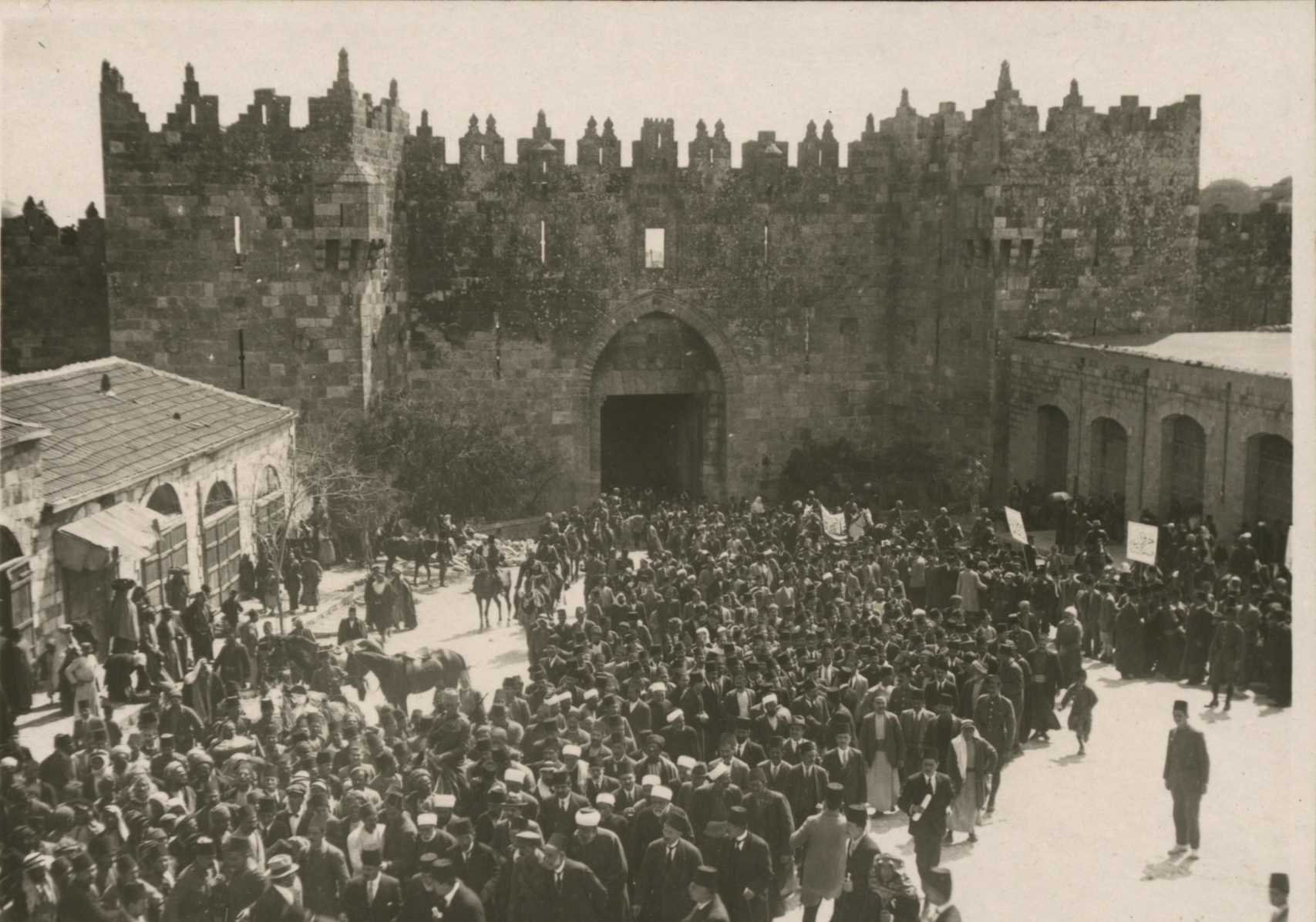 Anti-Zionist demonstration at Damascus Gate. March 8th, 1920. LC-DIG-ppmsca-13291-00132 (digital file from original, page 45, no. 132)